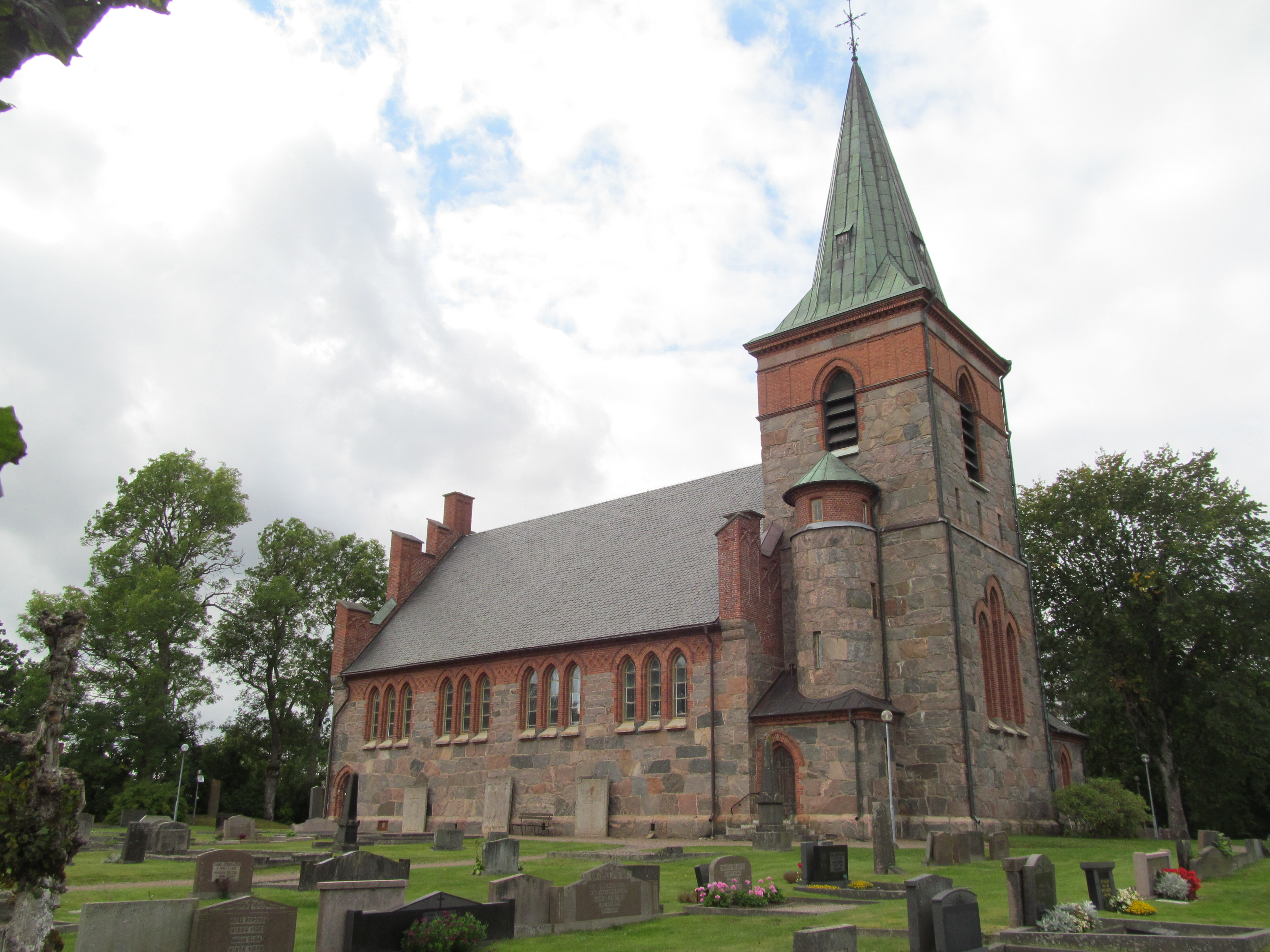 Södra Kedum church